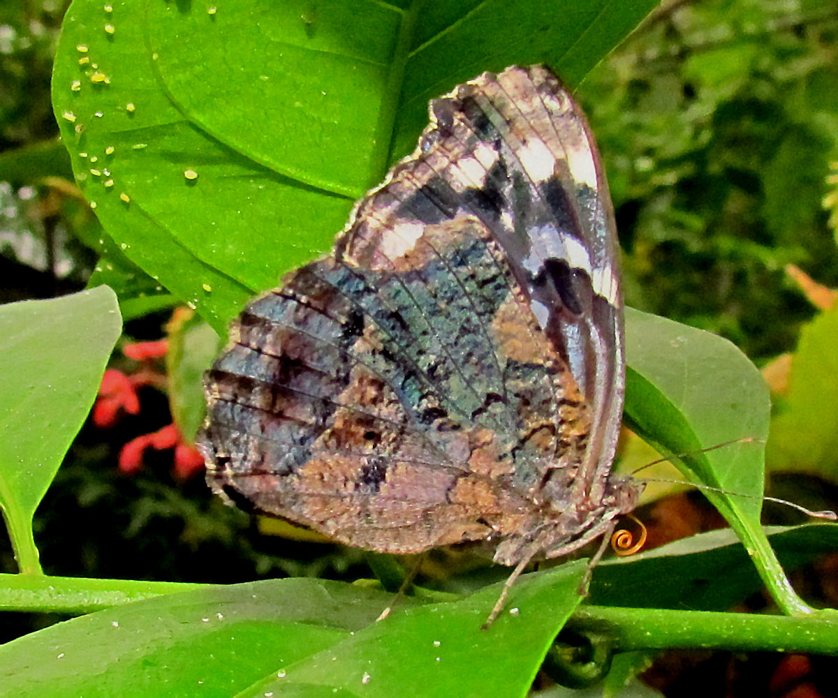 Mexican Bluewing (Myscelia ethusa), underside